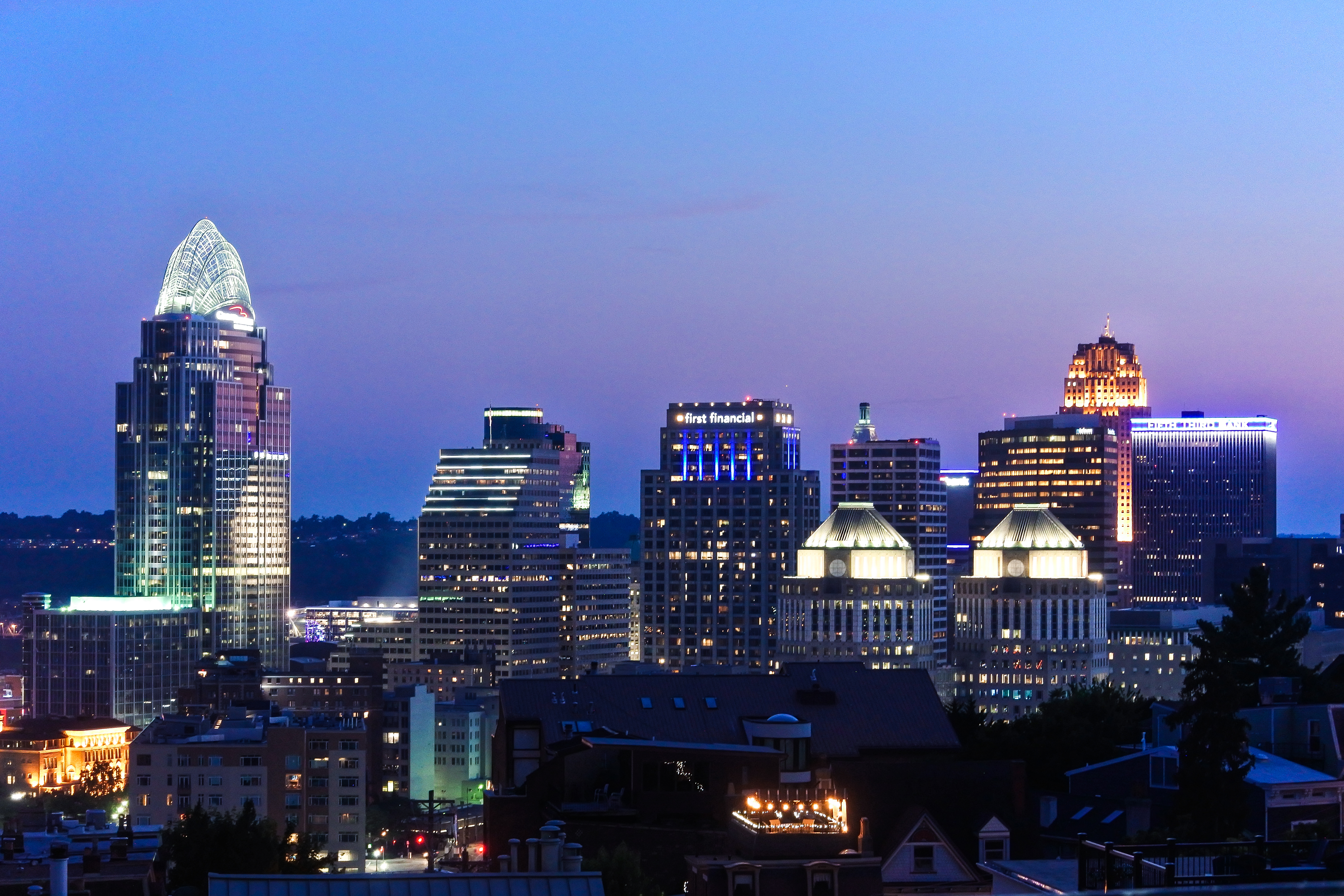 A view of Downtown Cincinnati from Mount Adams.